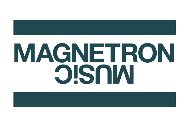 This is the official logo of Magnetron Music